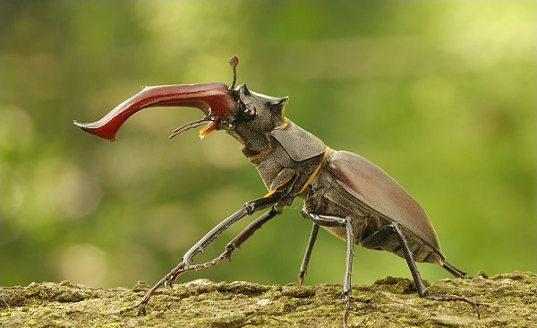 Sparinard beetle